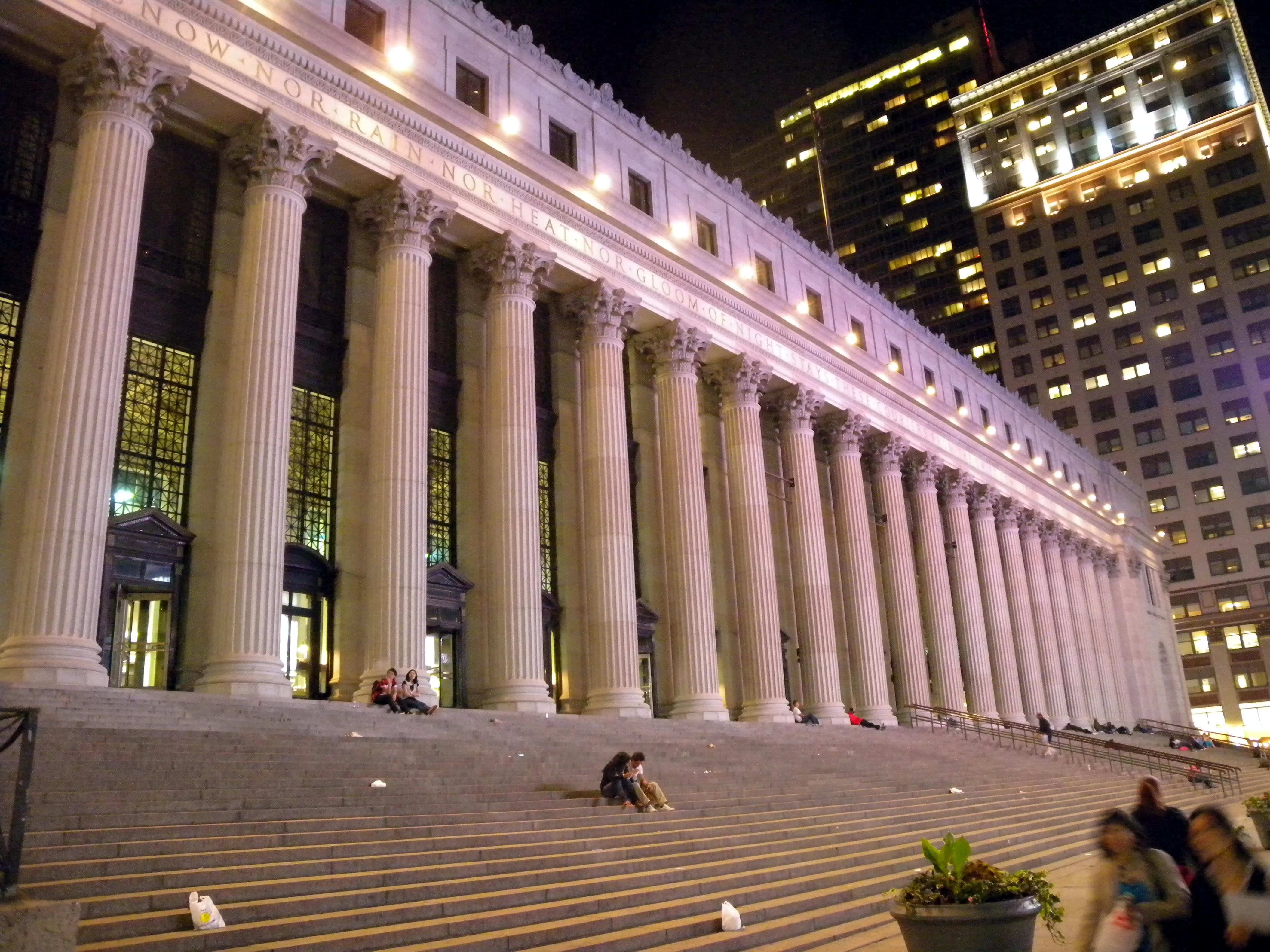 Looking north across 8th Ave at Farley Post Office on my way home from Brooklyn before midnight. Much more dramatic than the File:Farley PO jeh.JPG which it replaced in that Post Office's article. See File:PO 10001 colonnade nite jeh02.jpg for retouched version